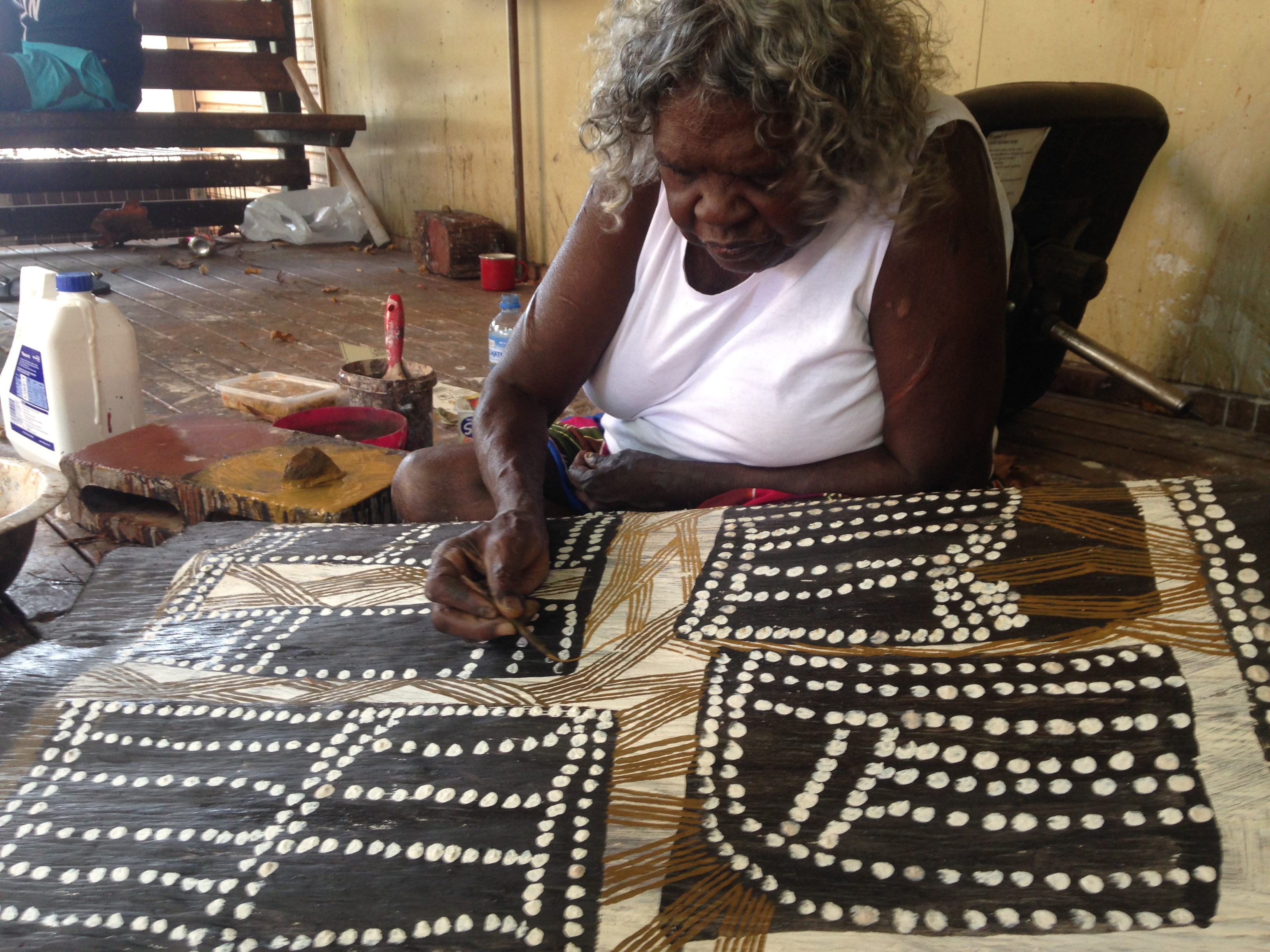 Nonggirrnga Marawili working at the Buku-Larrnggay Mulka Art Centre at Yirrkala. Photo by Henry Skerritt